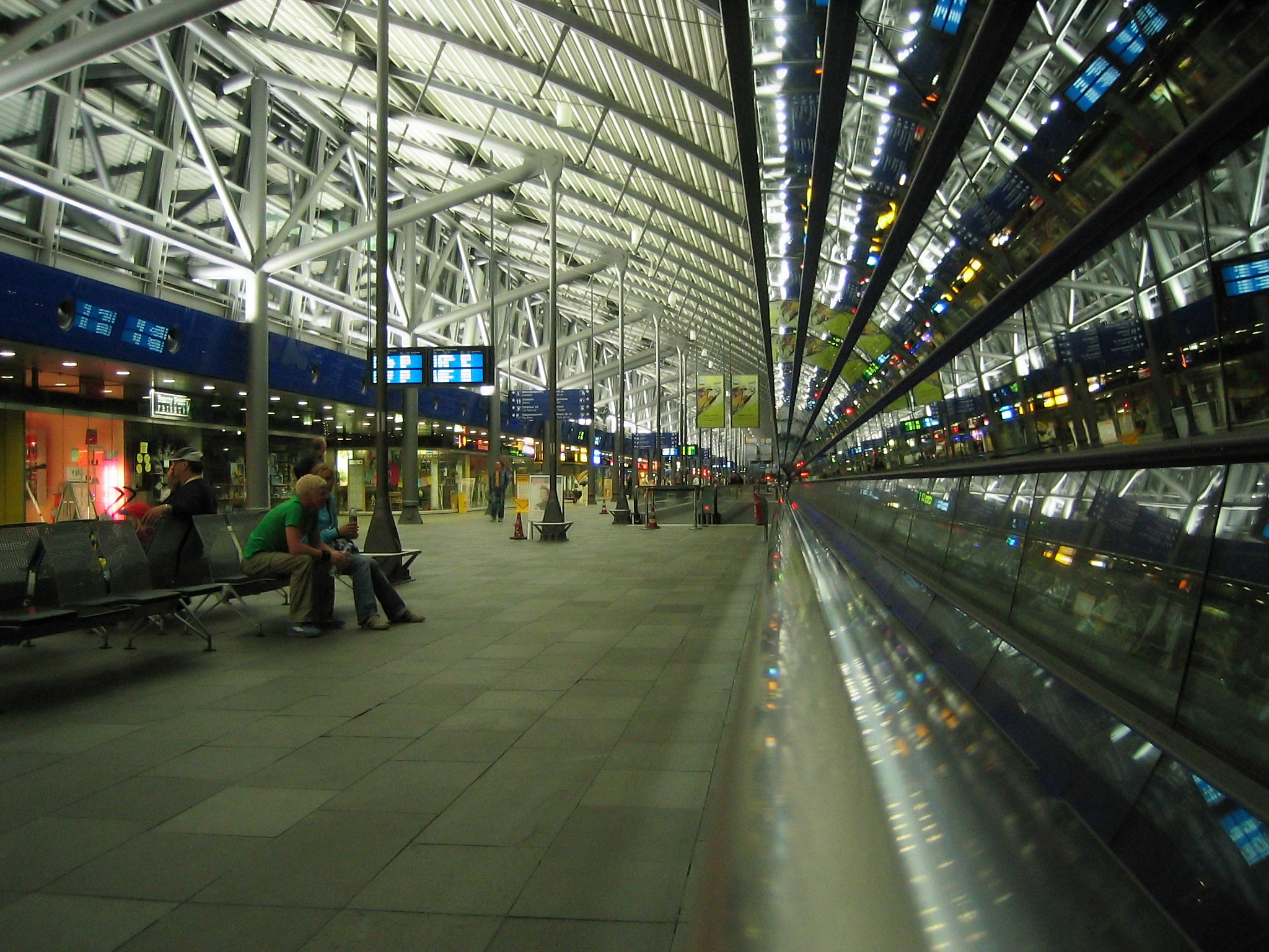 Inside of the Mall of the Leipzig/Halle Airport at night